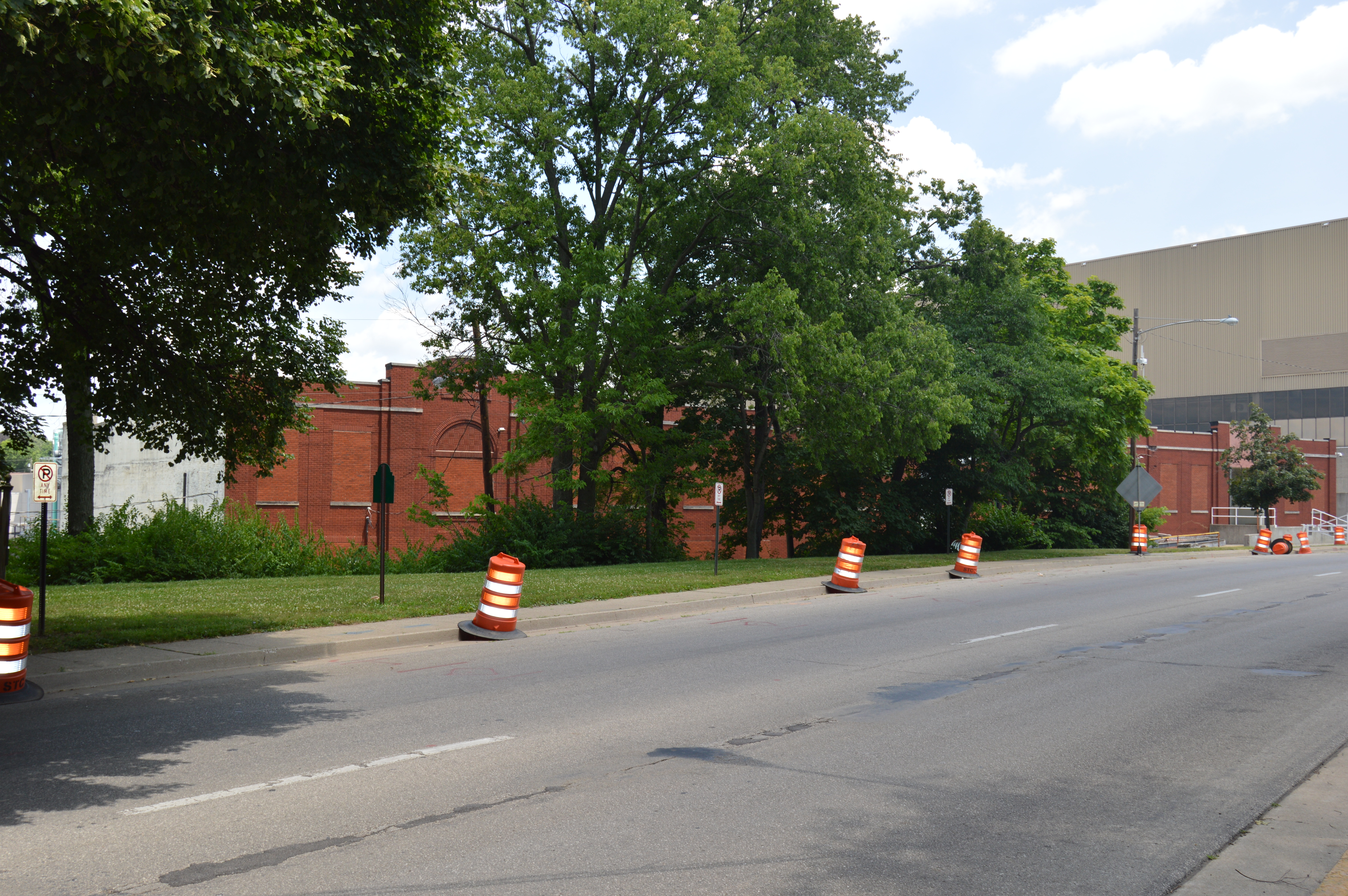 Overview of the site of the DeLong Agricultural Implements Warehouse in Lexington, Kentucky, United States. Although the warehouse was once located along Patterson Street, the area has been completely redeveloped, and the site is now occupied by parking lots and outbuildings for Rupp Arena. The warehouse was listed on the National Register of Historic Places in 1980; although destroyed, it has not yet been removed from the Register.